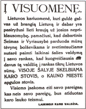 A flyer that was distributed in Kaunas after the December 17, 1926 coup d'état in Lithuania. It reads: "TO THE PUBLIC Lithuanian army, which sacrificed lives for dear Lithuania and is still ready to spill blood for its independence, seeing that the current Seimas and government are selling Lithuania to Bolsheviks and foreigners decided to temporarily take the power in its hands so that the power could be transferred as soon as possible to real sons of Lithuania. MARTIAL LAW IS DECLARED IN THE ENTIRE COUNTRY, and siege law in KAUNAS. Everybody is commanded to go about their duties; those who will not do their duties will be tried in military tribunal. Temporary war government"